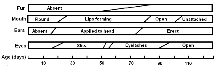 Created by User:Petaholes from data in Guiler, E.R., Observations on the Tasmanian Devil, Sarcophilus harrisii (Marsupialia : Dasyuridae) II. Reproduction, breeding and growth of pouch young, Australian Journal of Zoology, 1970, 18(1)63-70 he:קובץ:Tasmanina_Devil_development_heb.jpg